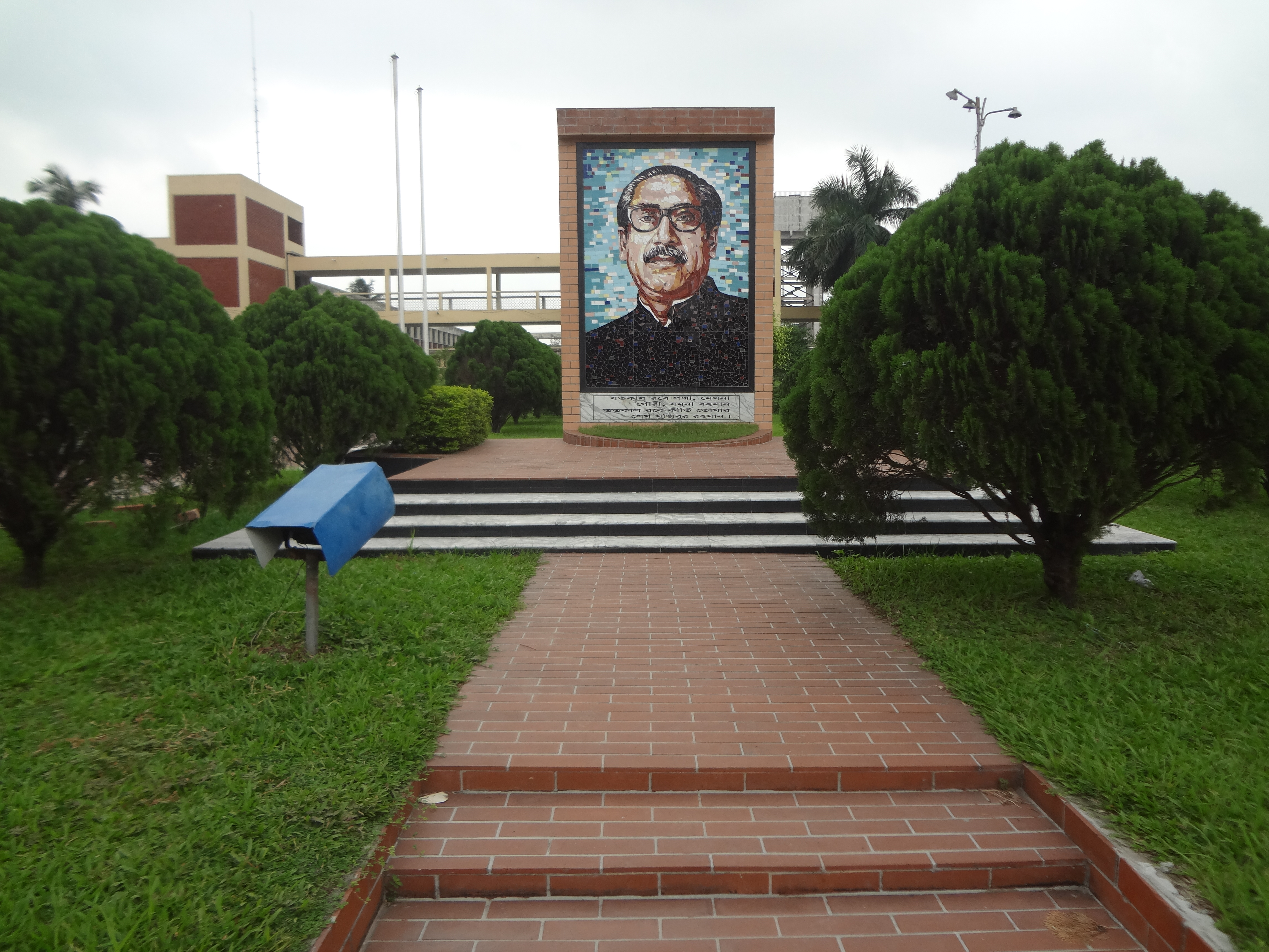 The Bangabandhu Mural is situated in front of the administration building.